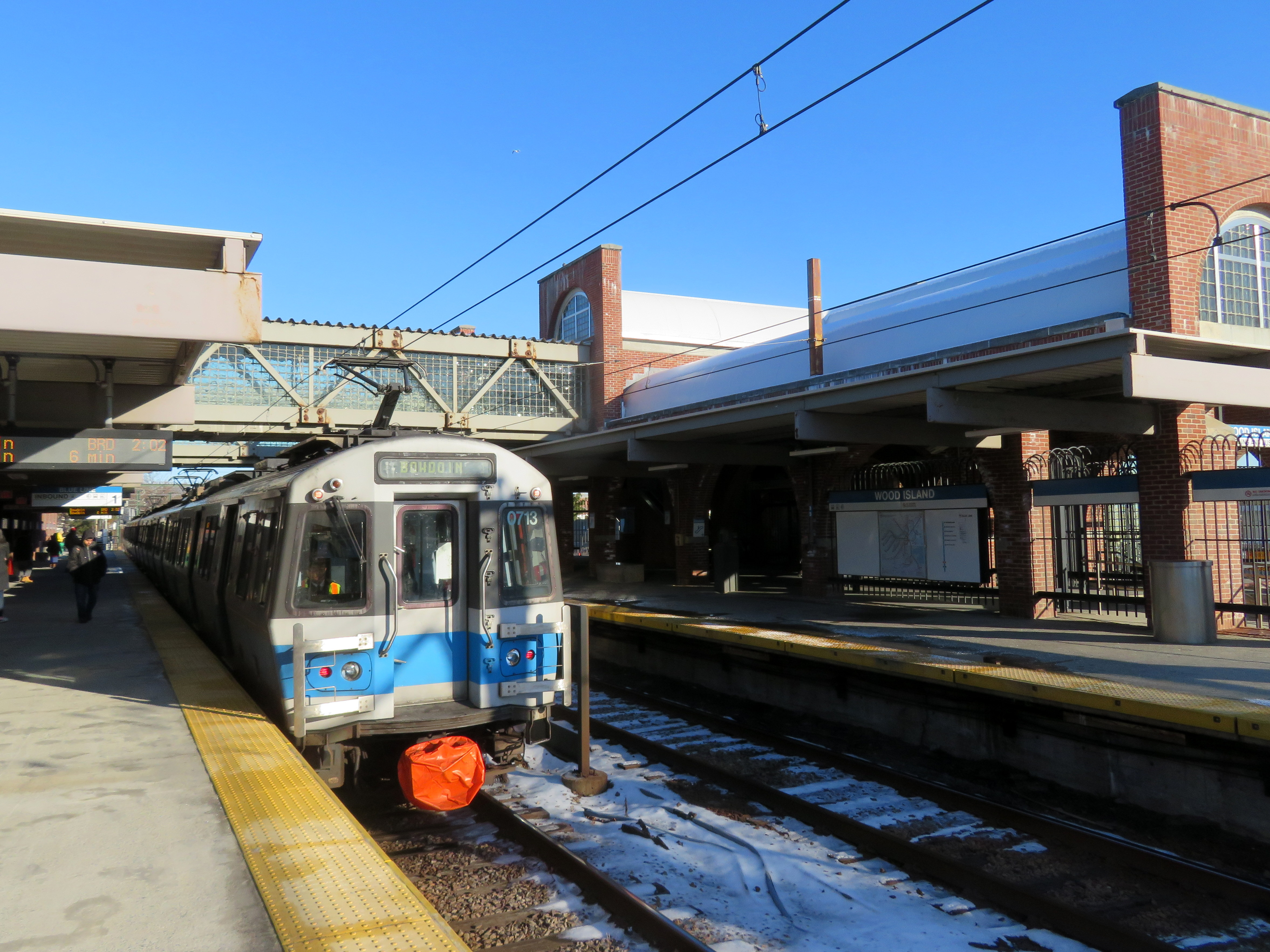 An inbound train at Wood Island station in December 2019